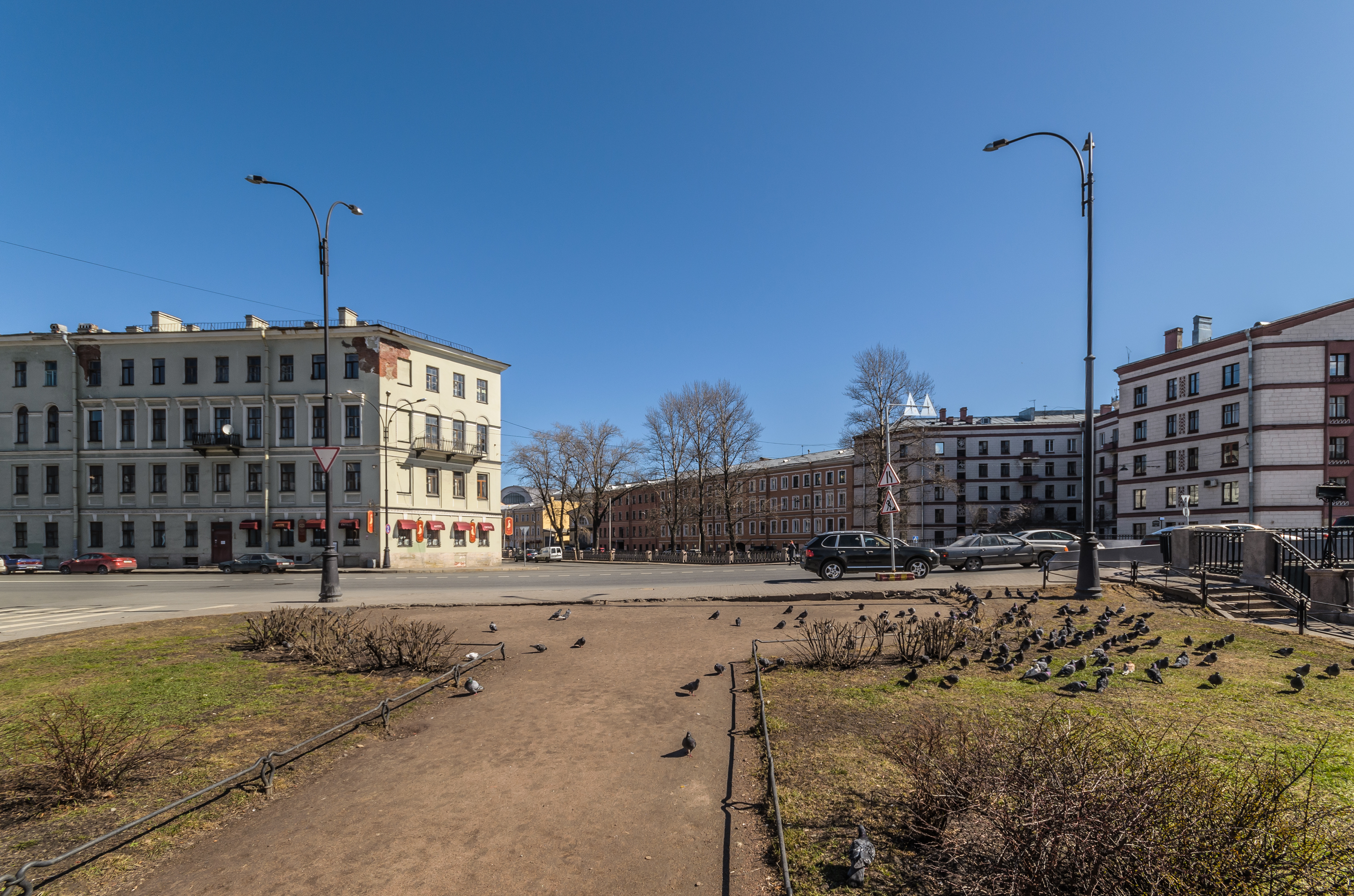 Nikolskaya Square in Saint Petersburg